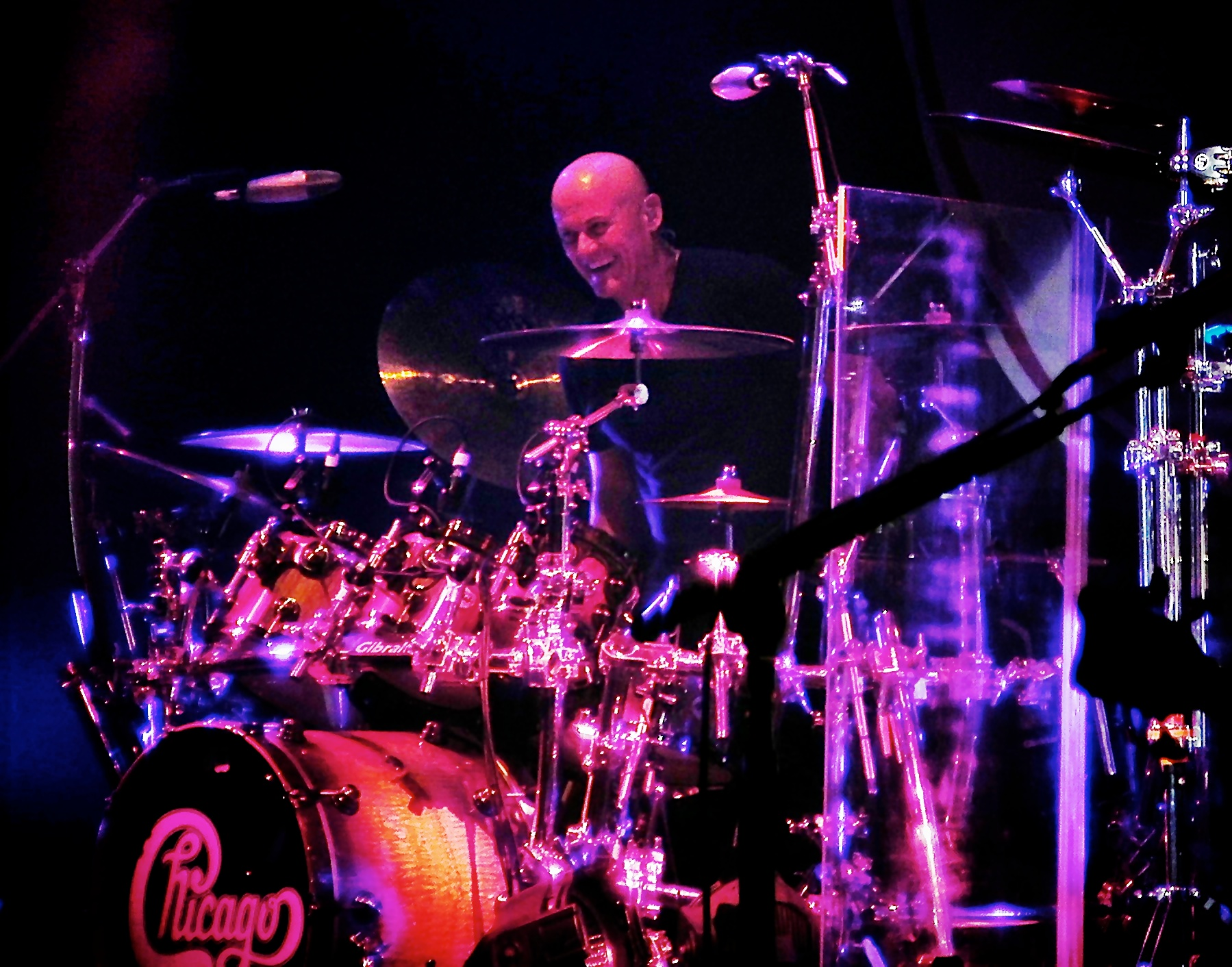 Tris Imboden poses behind his drum set, between songs, at a Chicago concert, at the Stiefel Theatre, in Salina, Kansas